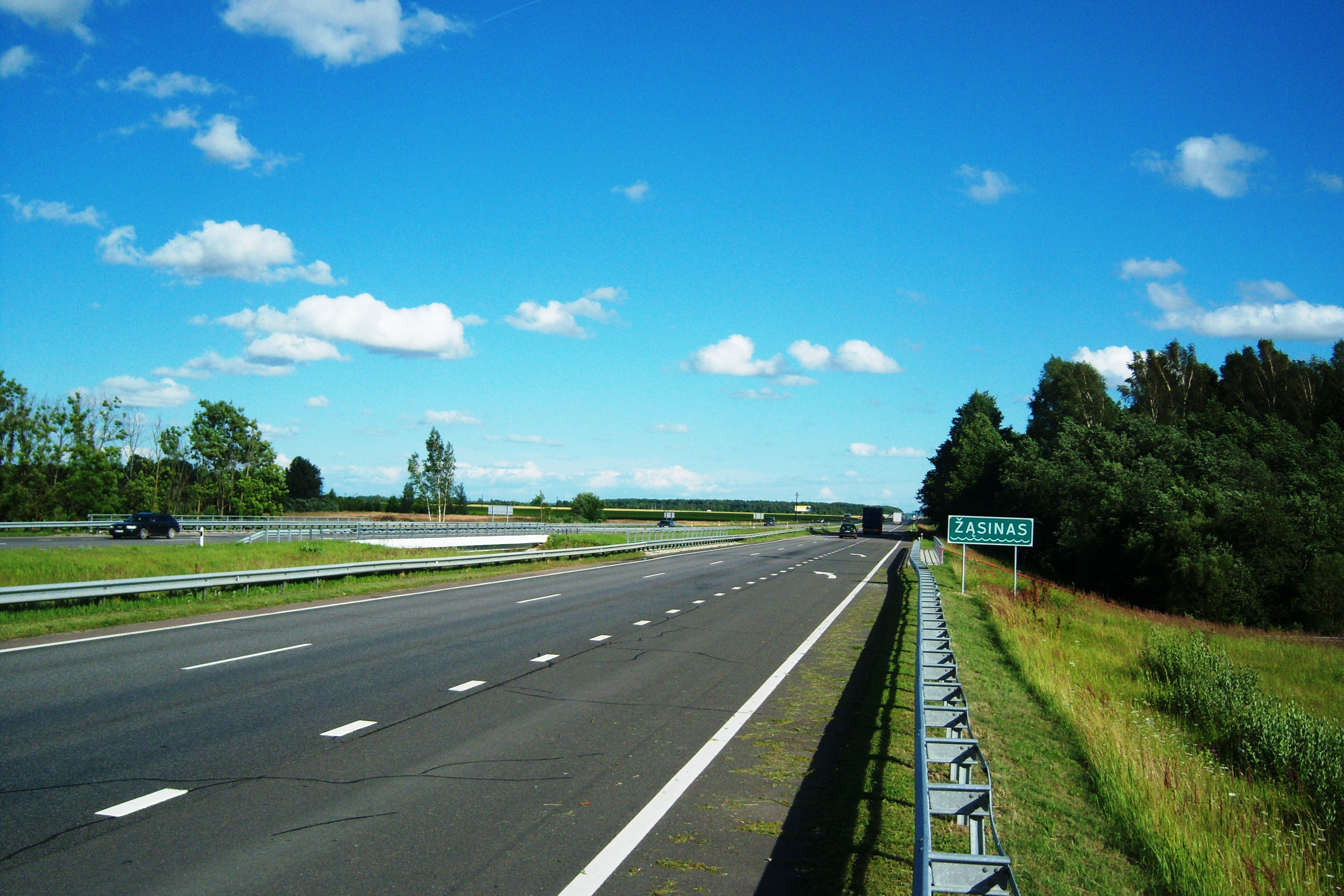 Žąsinas River on highway A1, Kaunas district. Lithuania